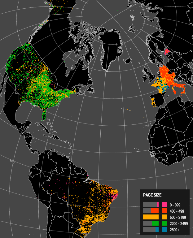 Kartograph's "equi" projection map of the Volapük Wikipedia's 94,231 geotagged articles as of July 2014.